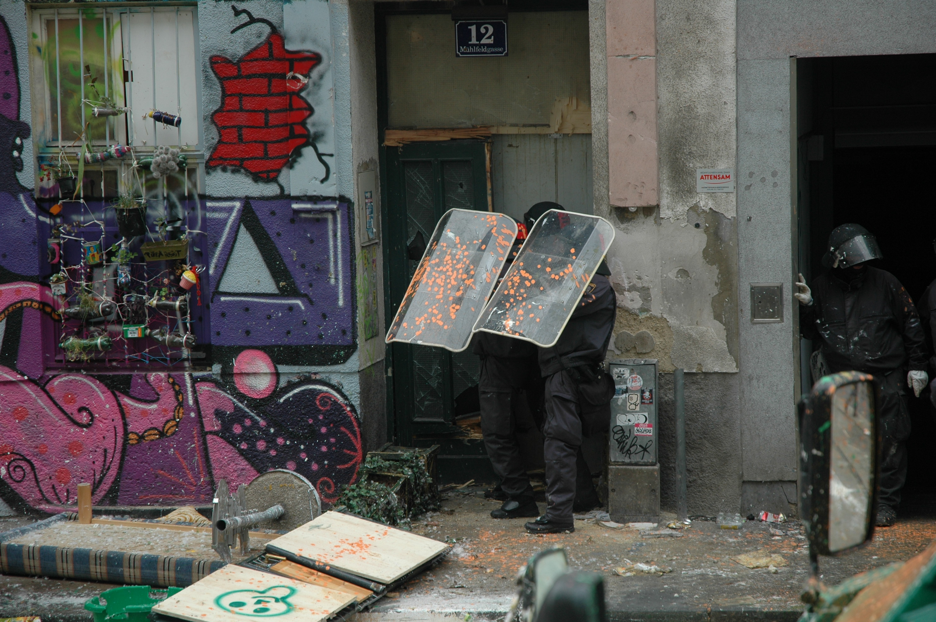 Räumung der Hausbesetzung "Pizzaria Anarchia" in Wien-Leopoldstadt am 28. Juli 2014. Die Polizei scheitert über Stunden am schwer verbarrikadierten Eingangsbereich.